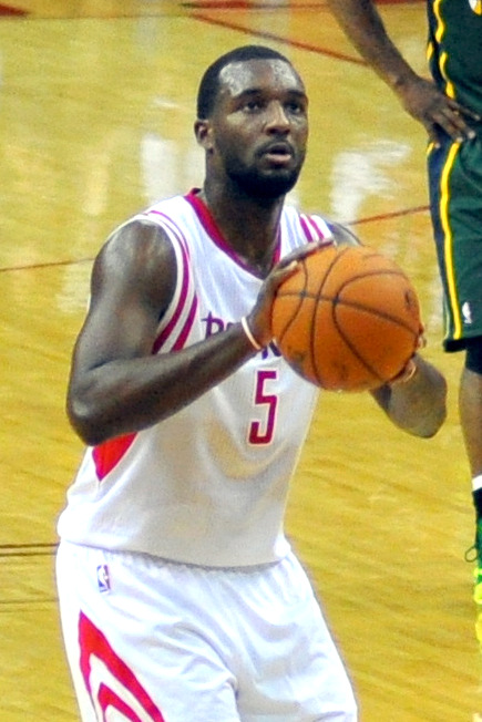 Jordan Hamilton of the Houston Rockets shoots a free throw during an NBA basketball game against the Utah Jazz on March 17, 2014, at the Toyota Center in Houston, Texas.